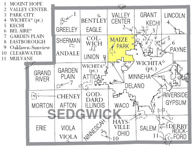 Map of Sedgwick County, Kansas highlighting Park Township